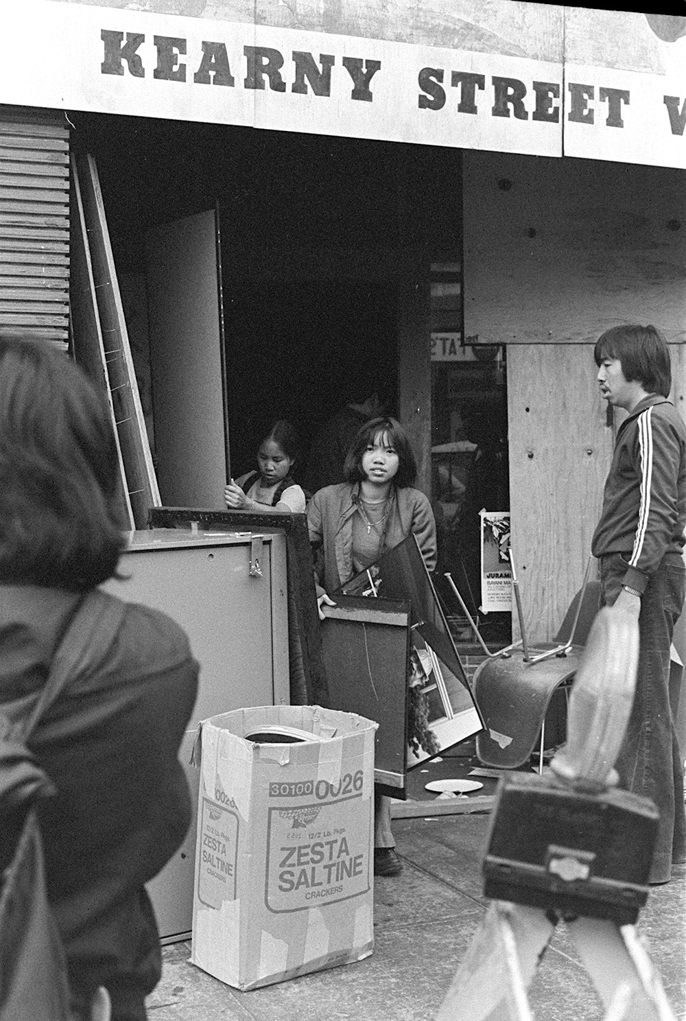 Silkscreen artist and former Executive Director for The Kearny Street Workshop Nancy Hom take artwork out of the International Hotel, 848 Kearny Street in San Francisco a day after the hotel's tenants were evicted by San Francisco Sheriffs' deputies and police. Photo by Nancy Wong